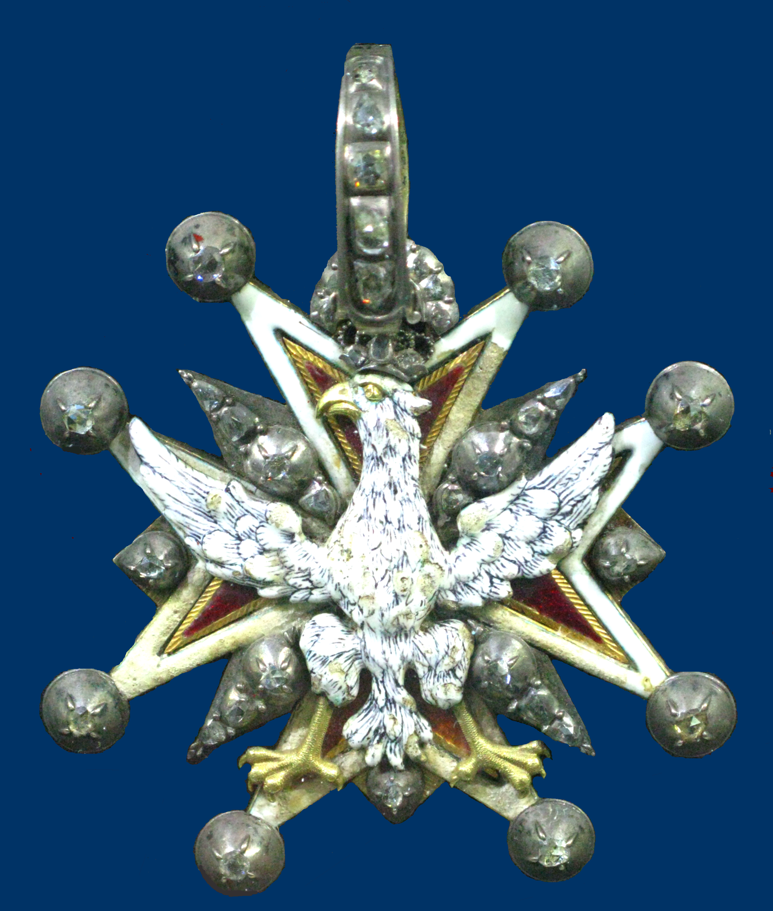 Cross of the Order of White Eagle (XVIII century).